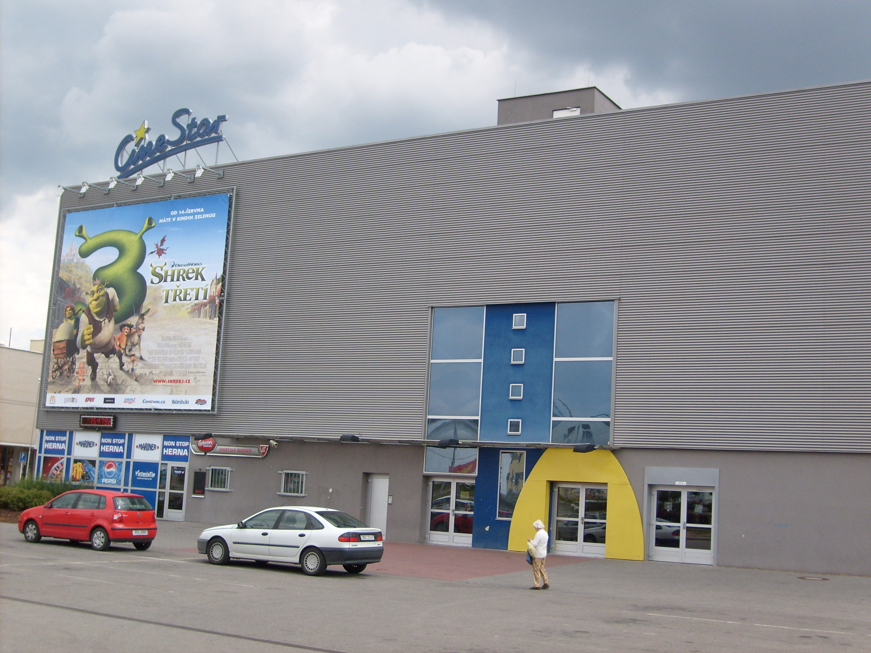 Čtyři Dvory mall with the Cinestar multiplex, České Budějovice, Czech Republic